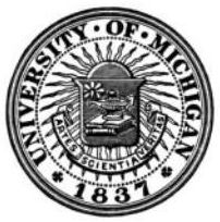 Seal of the University of Michigan, with founding date as 1837